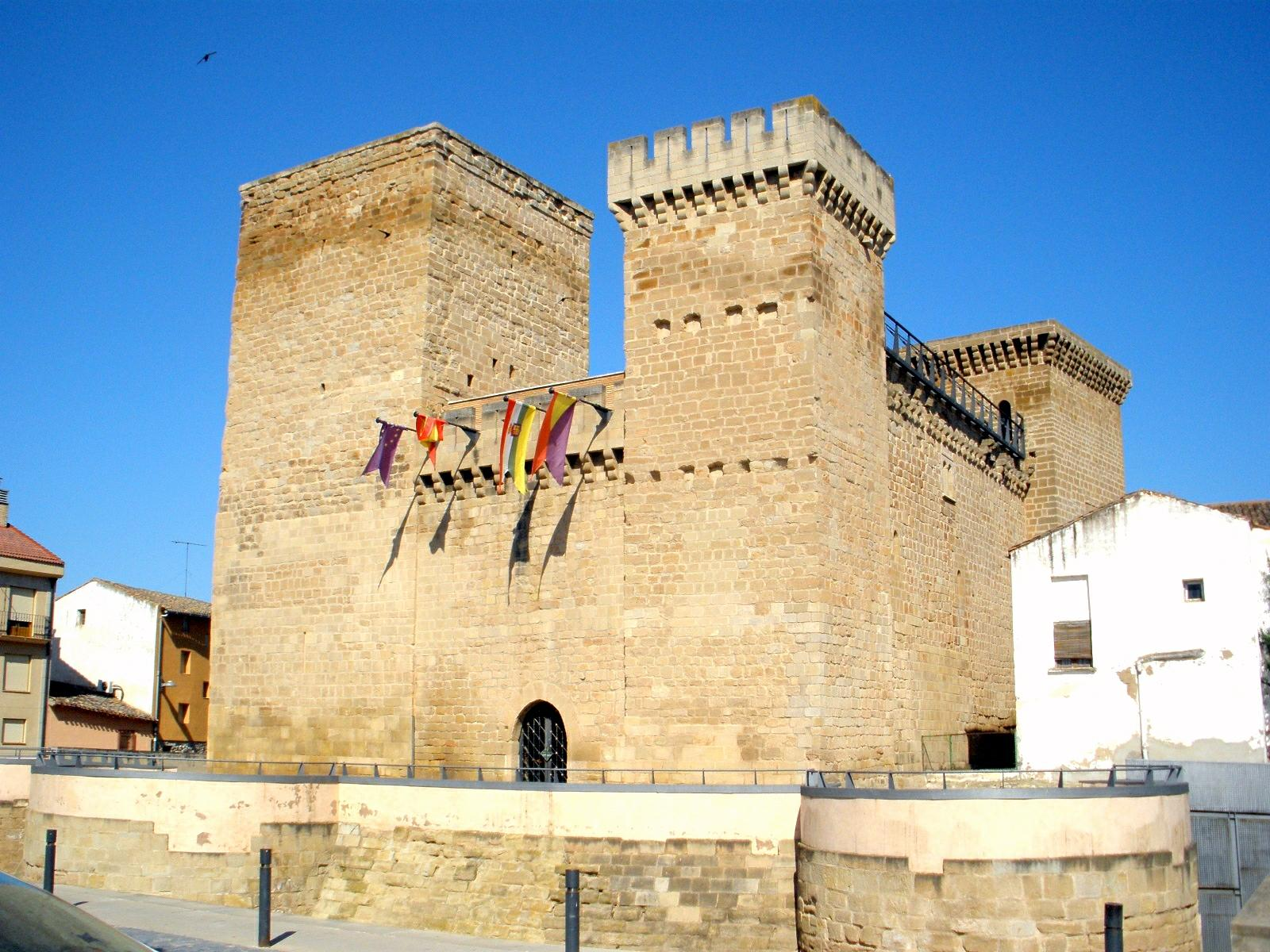 Castillo de Aguas Mansas, en Agoncillo (La Rioja, España)